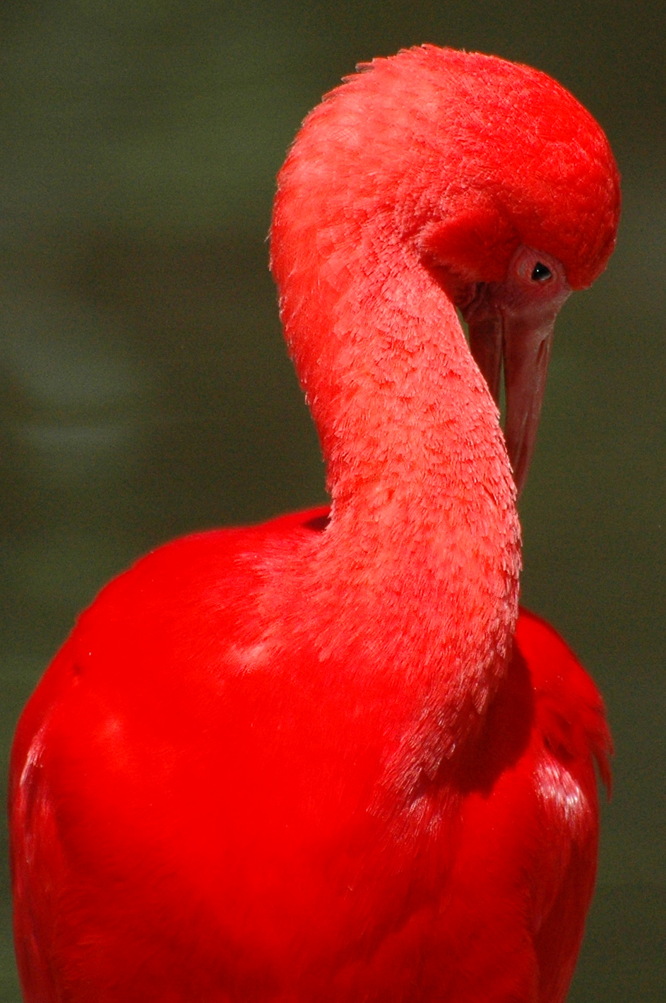 Scarlet Ibis, Birds of Eden Park, RSA